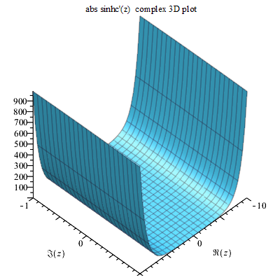 Sinhc'(z) abs complex 3D plot